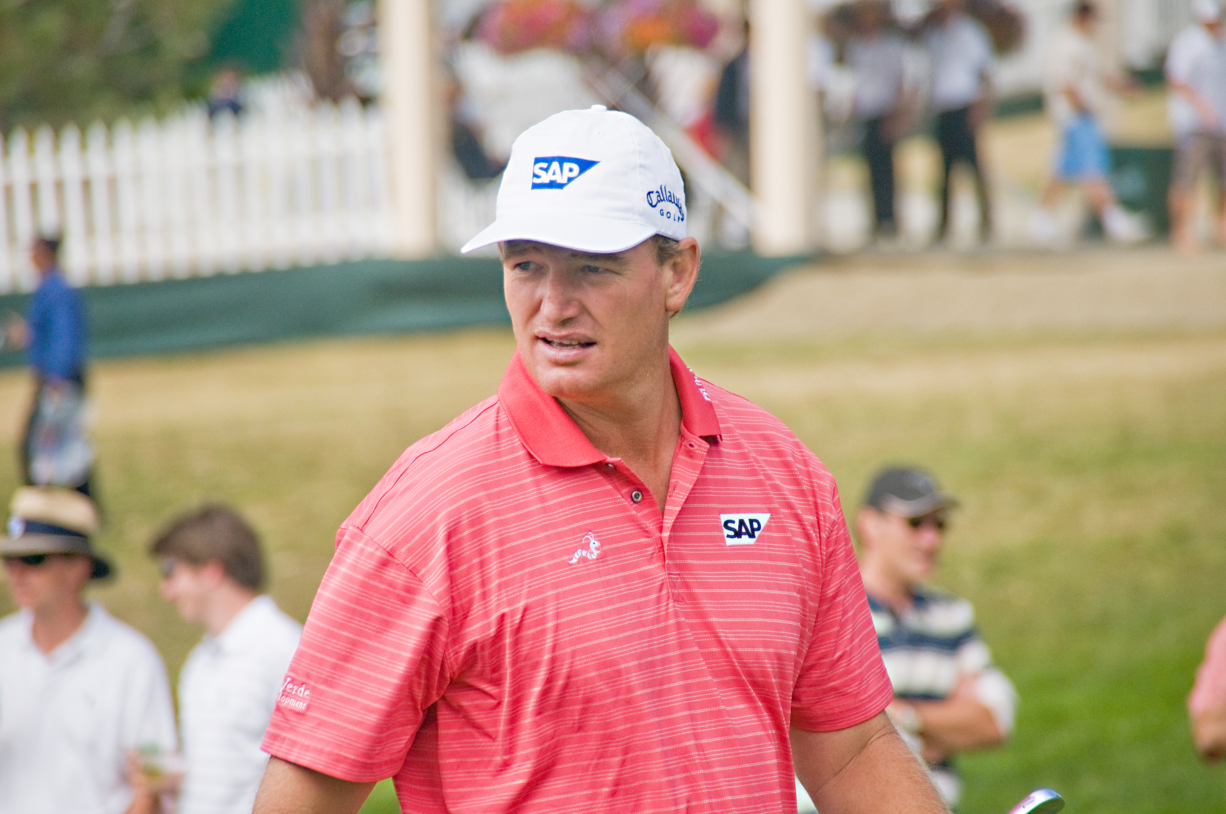 Golfer Ernie Els walks up the fairway at the 2008 U.S. Open